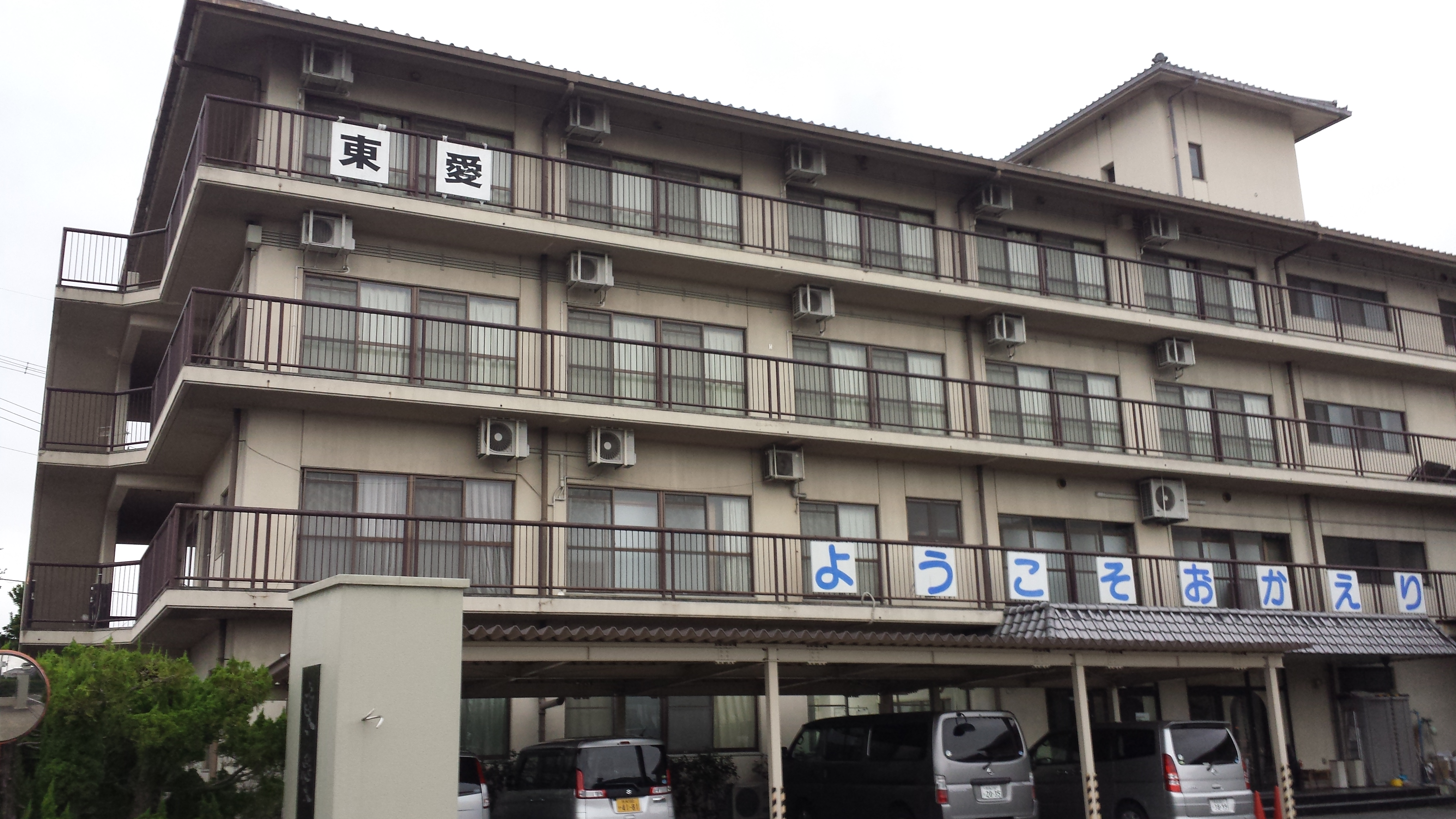 Tenrikyo followers' dormitory, in Tenri, Nara, Japan. On the upper left is written 東愛 (Toai), the 'Grand Church' to which this followers' dormitory belongs. On the bottom is written ようこそおかえり (welcome home), addressed to followers who are 'returning' to the Jiba at Tenrikyo Church Headquarters, where it is believed that human beings were created.